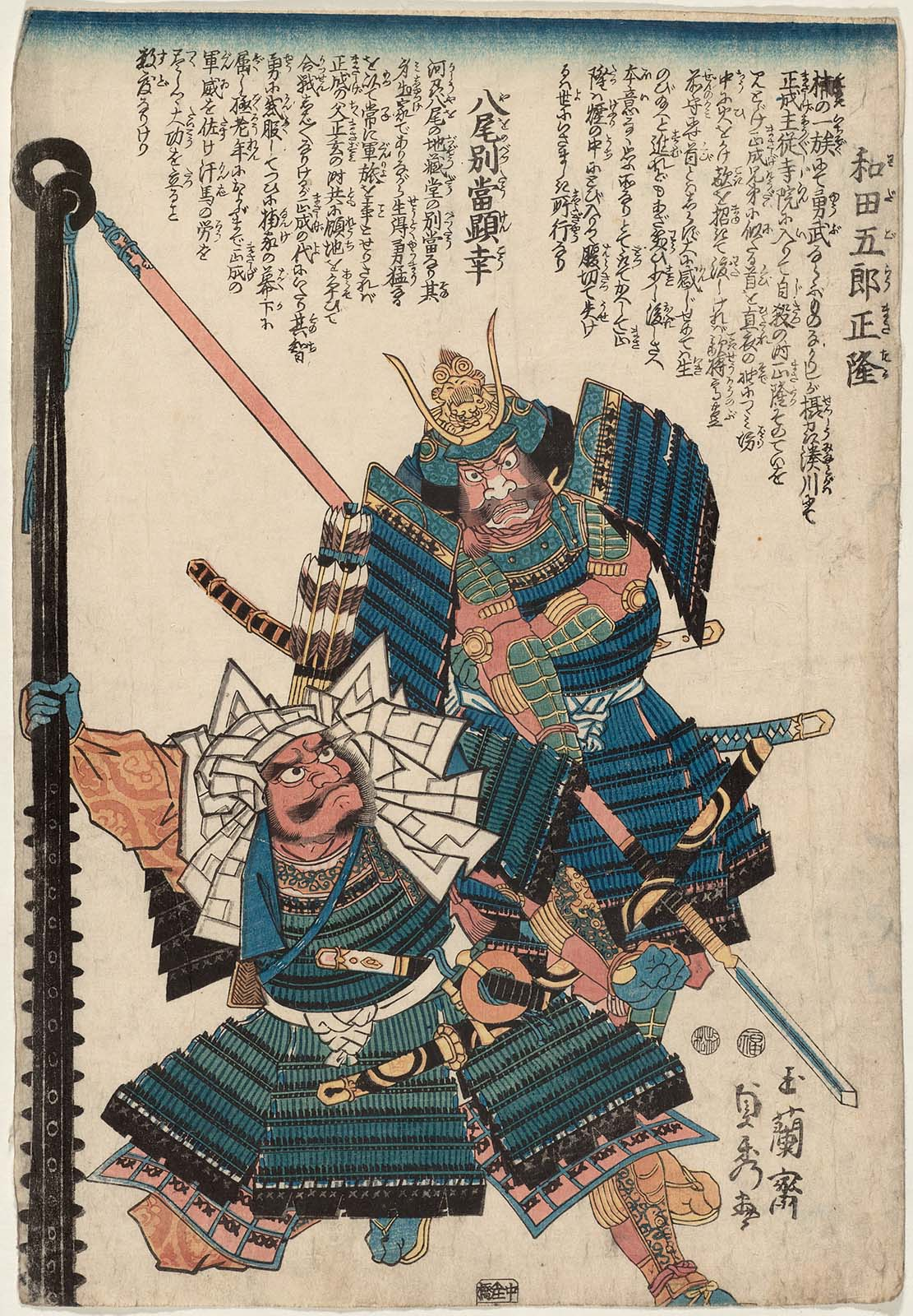 Wada Gorō Masataka and Yao no Bettō Kenkō (generals of the army of Kusunoki Masashige), drawn by Utagawa Sadahide